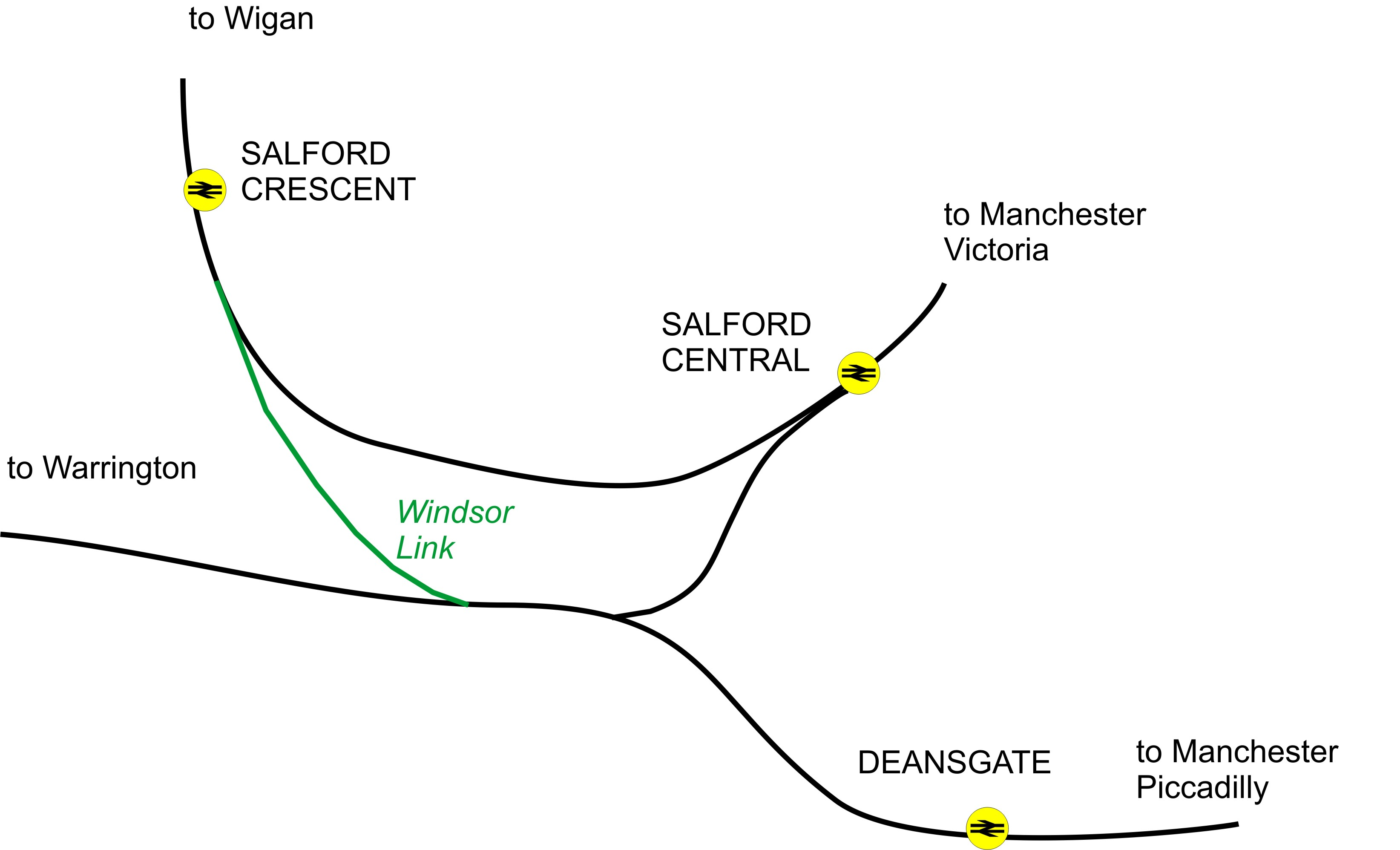 The Windsor Link railway line in Greater Manchester